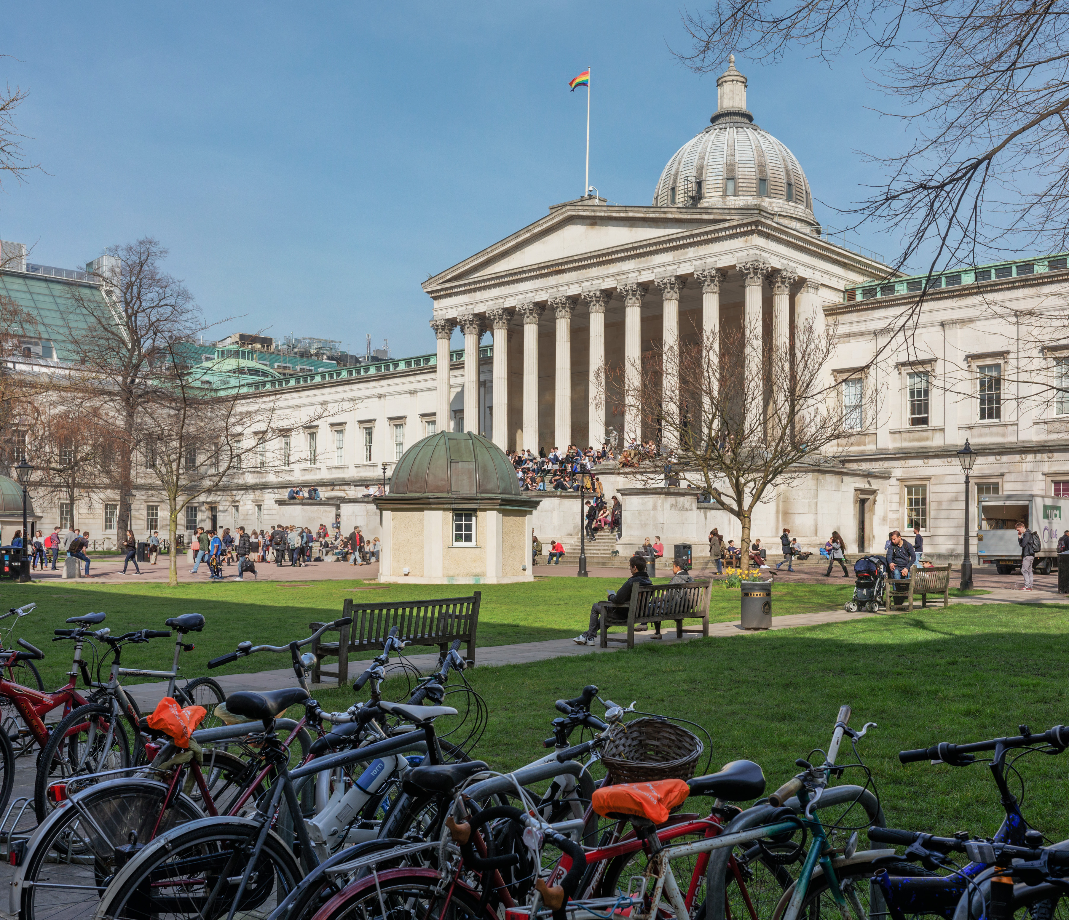 The Wilkins Building, University College London, Gower Street, Bloomsbury, London, England